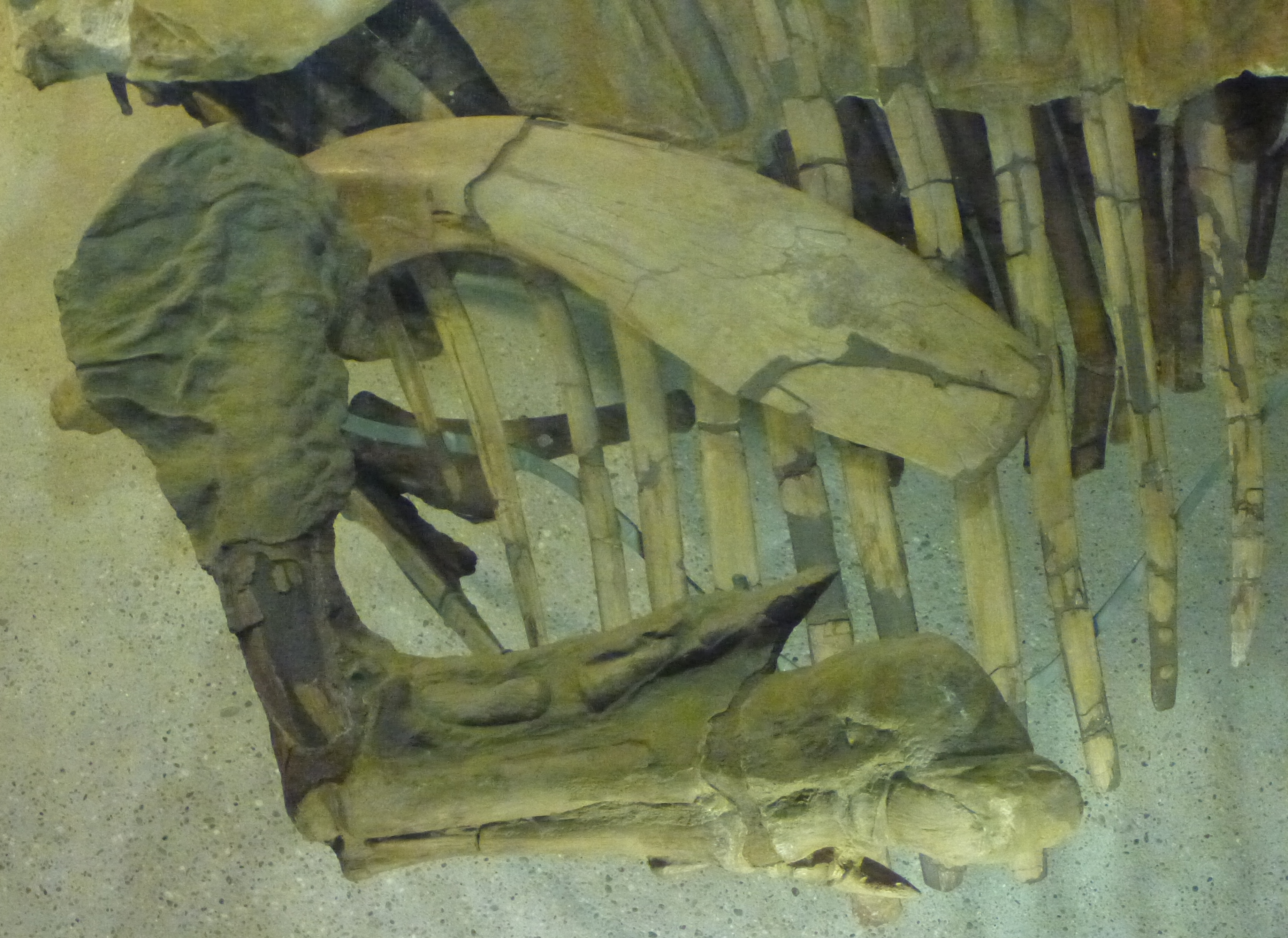 The Edmontosaurus mummy SMF R 4036 on display at the Senckenberg Museum, Frankfurt, Germany.